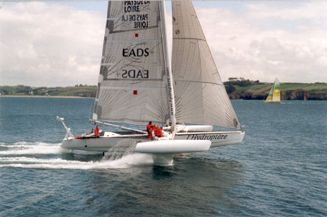 The experimental sailboat Hydroptère.